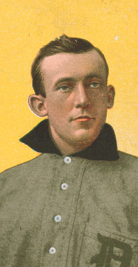 Cigarette card photo of Detroit player Ed Killian.